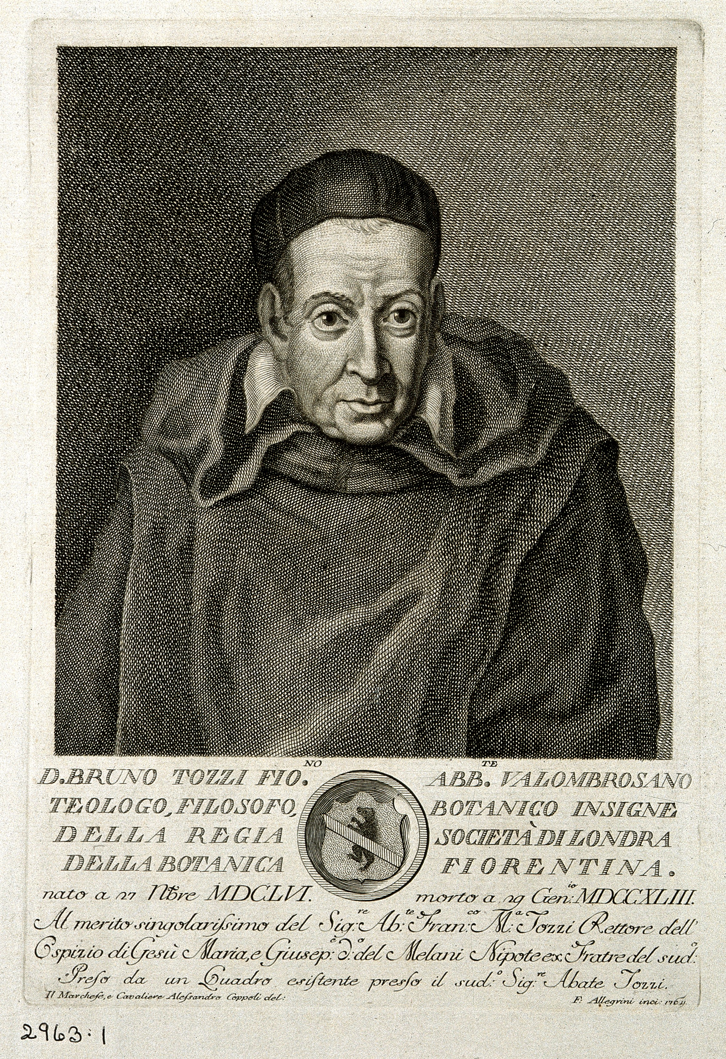 Bruno Tozzi. Line engraving by F. Allegrini, 1764, after A. Coppoli. Iconographic Collections Keywords: portrait prints; engravings; Bruno Tozzi